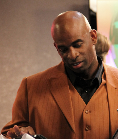 Deion Sanders in 2011. Photo courtesy of Michael J. Cargill, via Flickr.